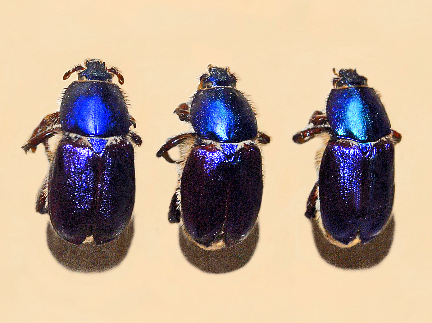 Glaphyrus maurus from Tunisia. Museum specimen